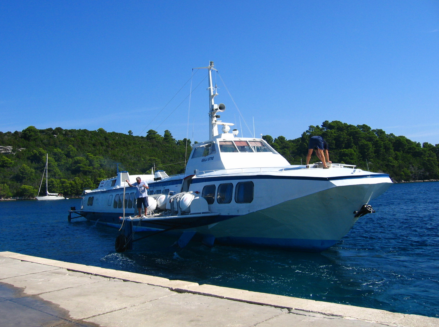 Hydrofoil Krila Istre, picture taken on the island of Mljet, Croatia IMO number: 8829141 Callsign: 9A2964